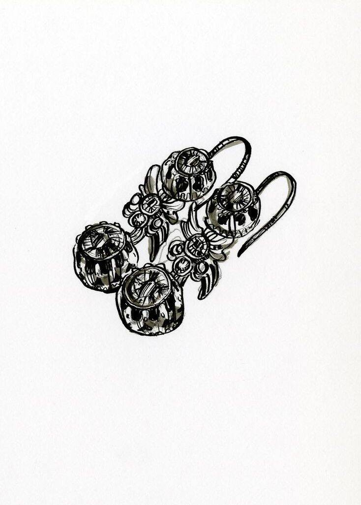 The description of the concept in this drawing is: Ear ornaments worn suspended from a bent wire or a thin loop passed through a hole pierced in the lobe of the ear or clipped or screwed to the lobe. (AAT)